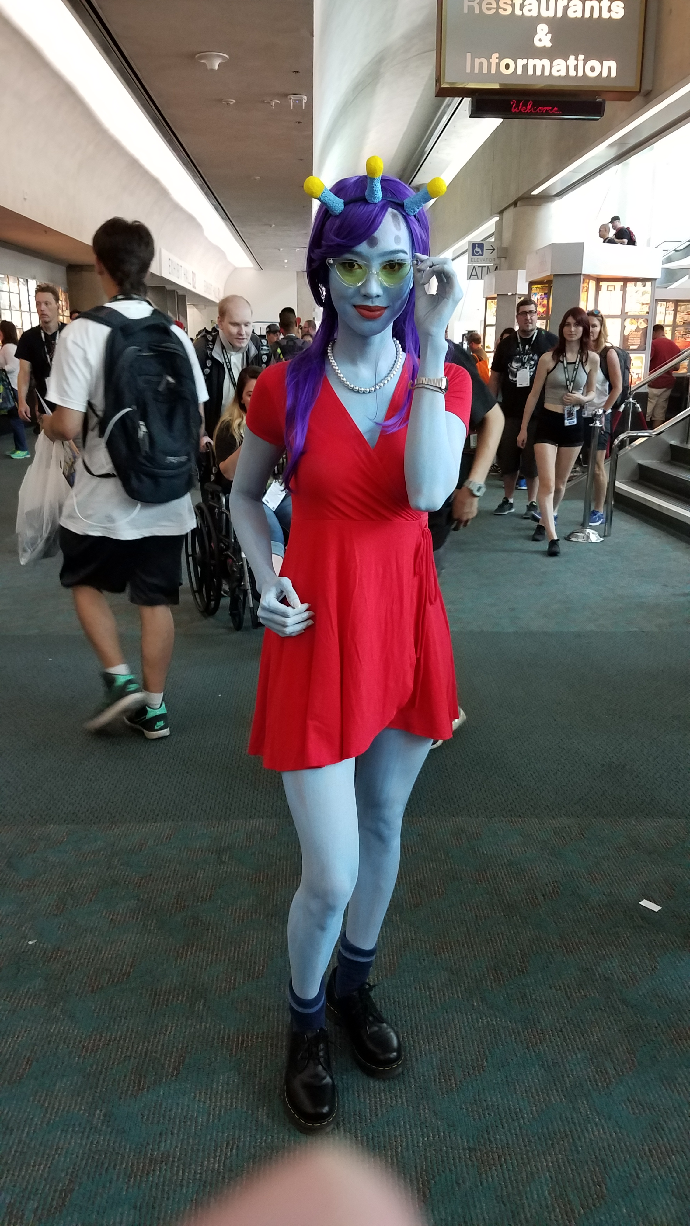 Attendee of Comic-Con International 2018 cosplaying as a Rick and Morty character